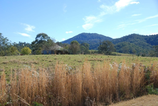 Homewood, Bellbrook